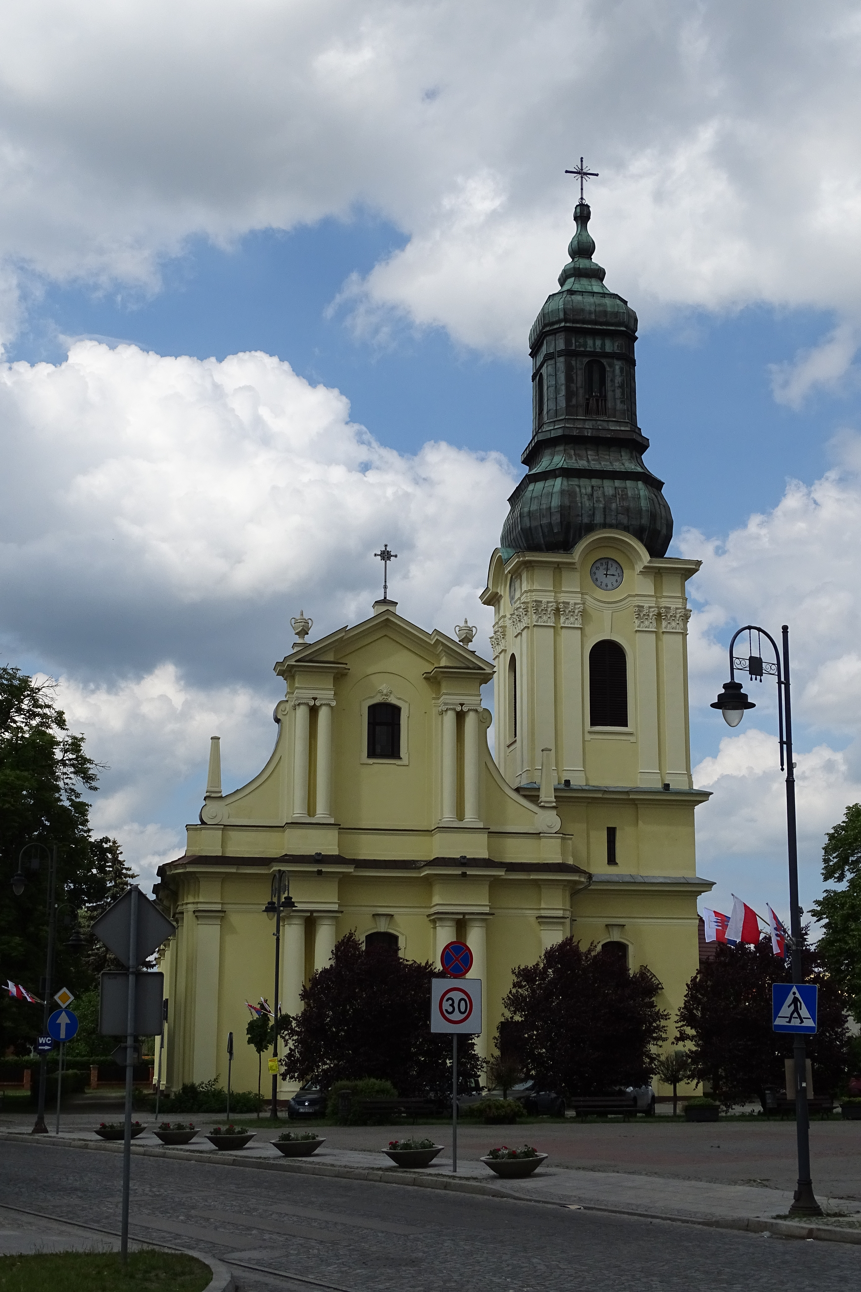 Fordon, Bydgoszcz, Poland. St. Michael church. XVI century.